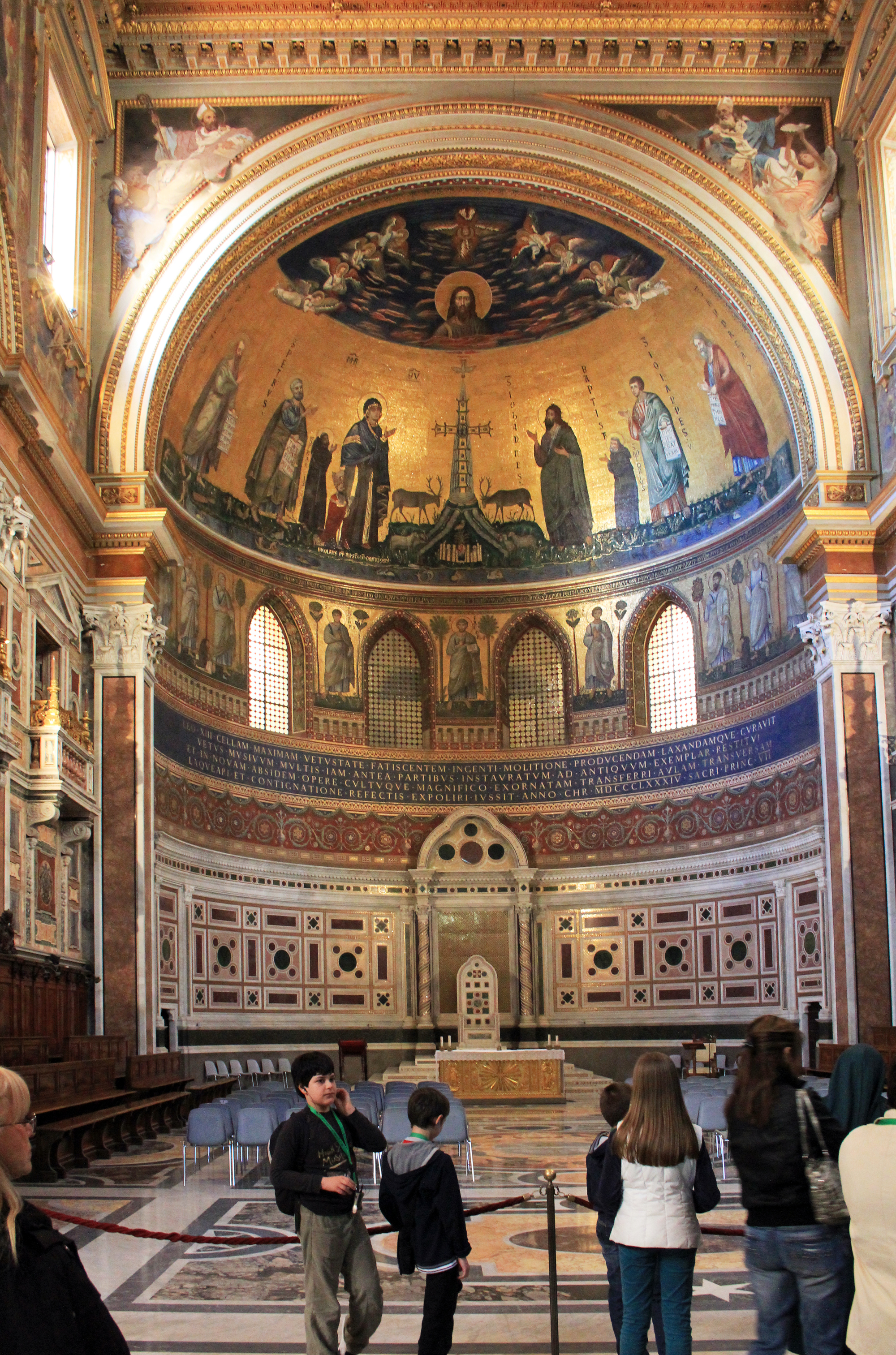 Interior of Basilica of St. John Lateran, Rome, Italy